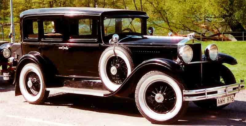 Hupmobile Series M De Luxe Century 4-Door Sedan 1929